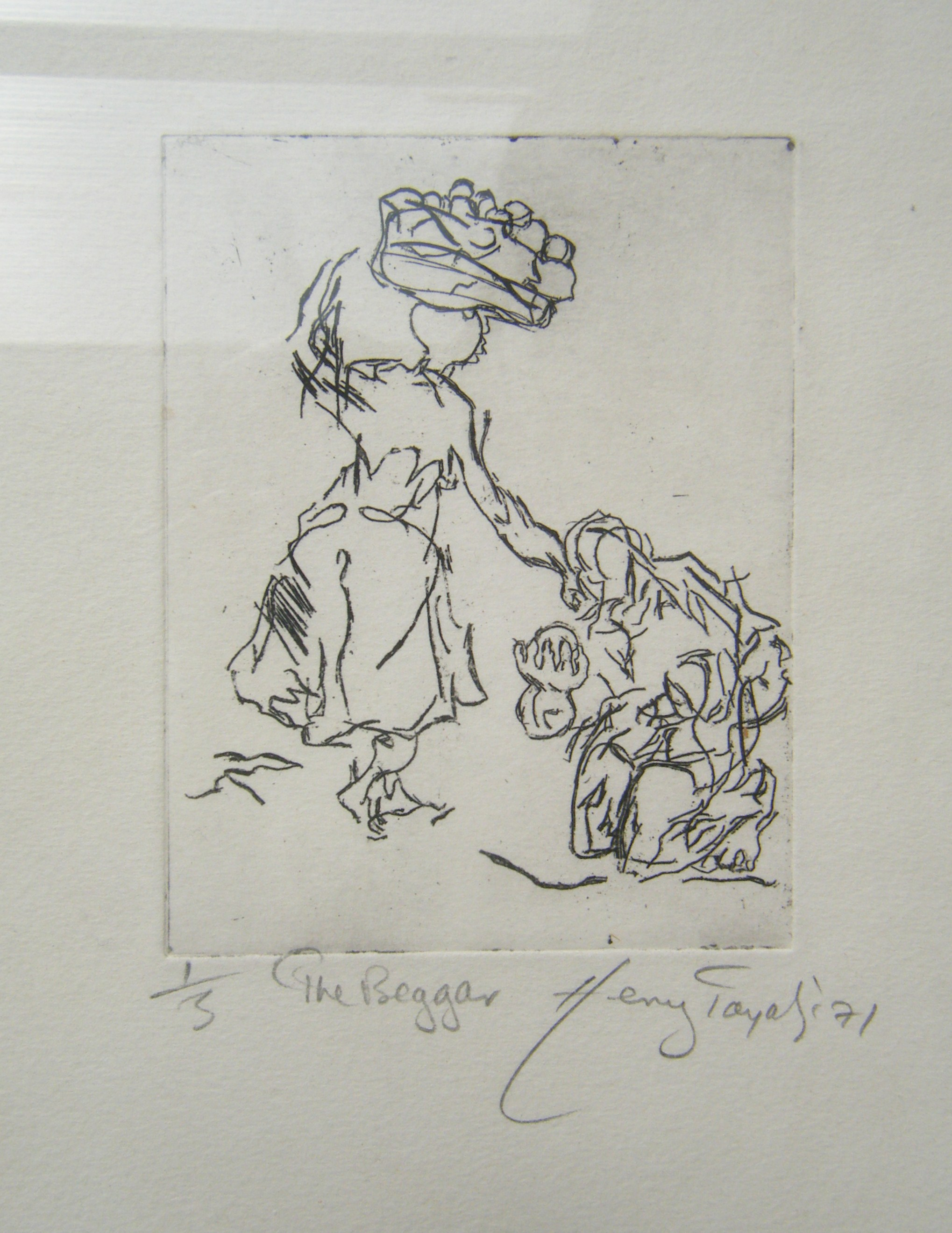 Henry Tayali - Small woodcut (1/3) produced in 1971. Private collection - Dr Enock Tayali